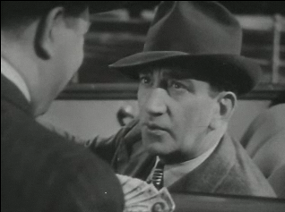 Screenshot of John Litel from the trailer for the film Little Miss Thoroughbred (1938).